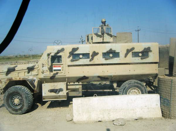 A MRAP ( Iraqi Light Armored Vehicle) in the service of the Iraqi army. It is also been given the nickname Badger.